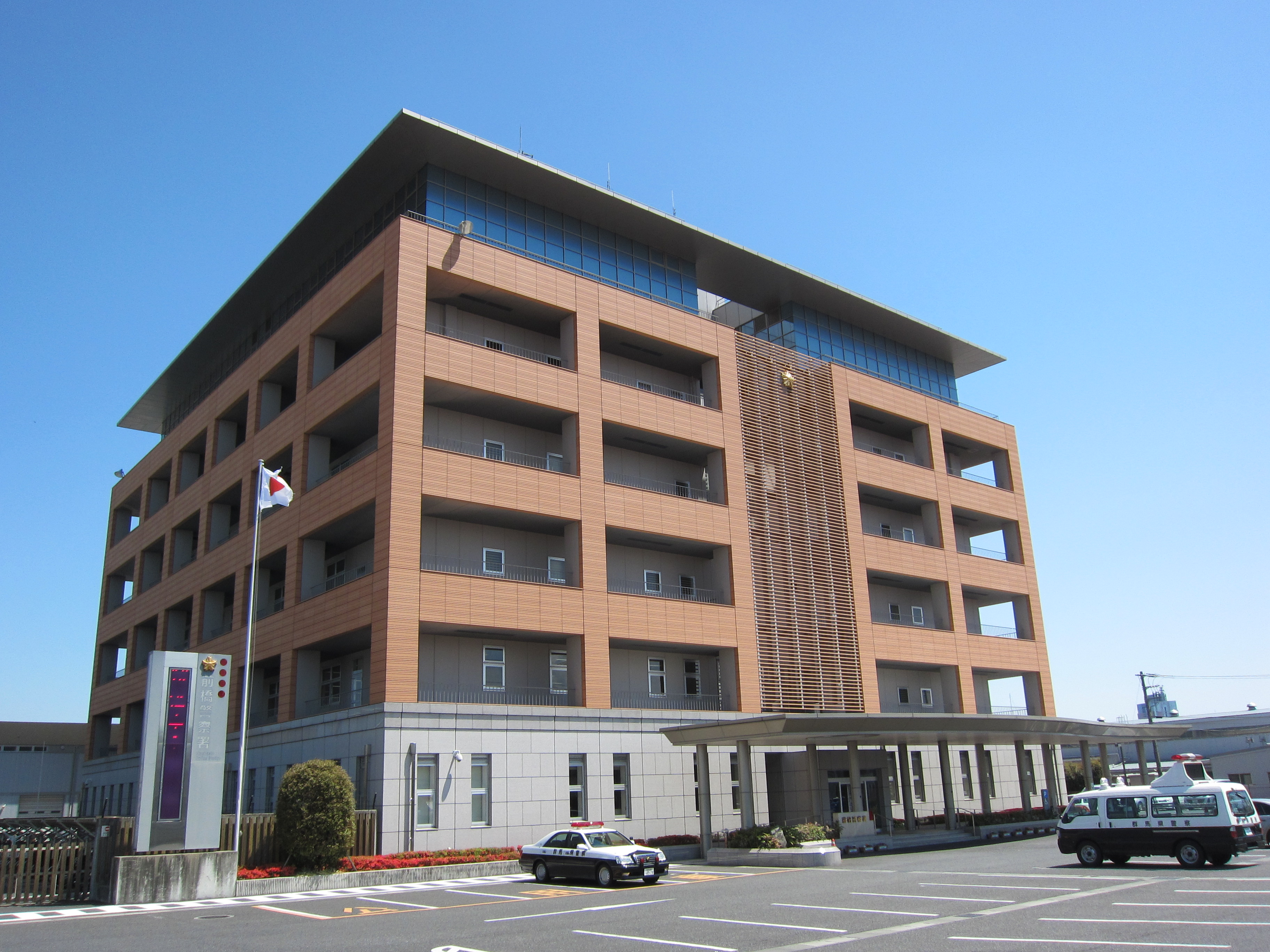 Maebashi Police Station